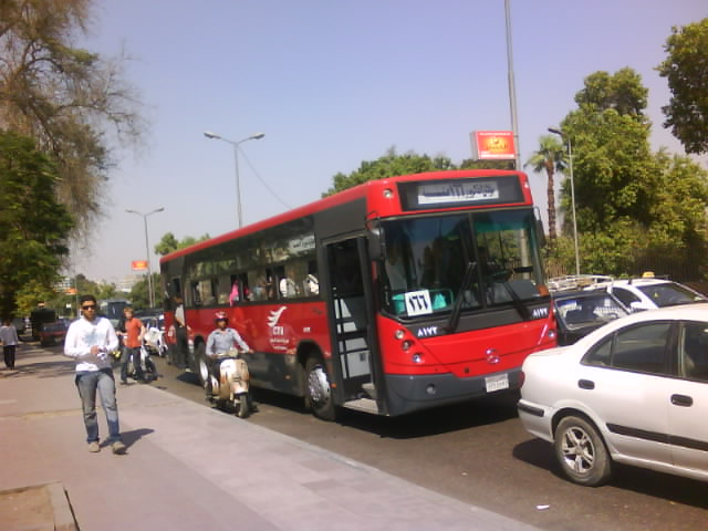 Cairo Transport Authority